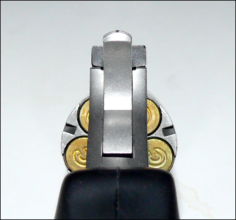 This picture illustrates the North American Arms 22 magnum Black Widow revolver cylinder in the safety position. Note that slightly less than one-half of a cartridge is visible on each side of the hammer and two other safety notches are in the 2 & 10 o'clock positions. The hammer must be partly cocked and released while holding the trigger in the firing position to position it in the safety notch. If the hammer is in the correct position the cylinder will not rotate. The hammer must not rest over a live round else the weapon can discharge if the hammer is struck. The 22 long rifle model is the same.